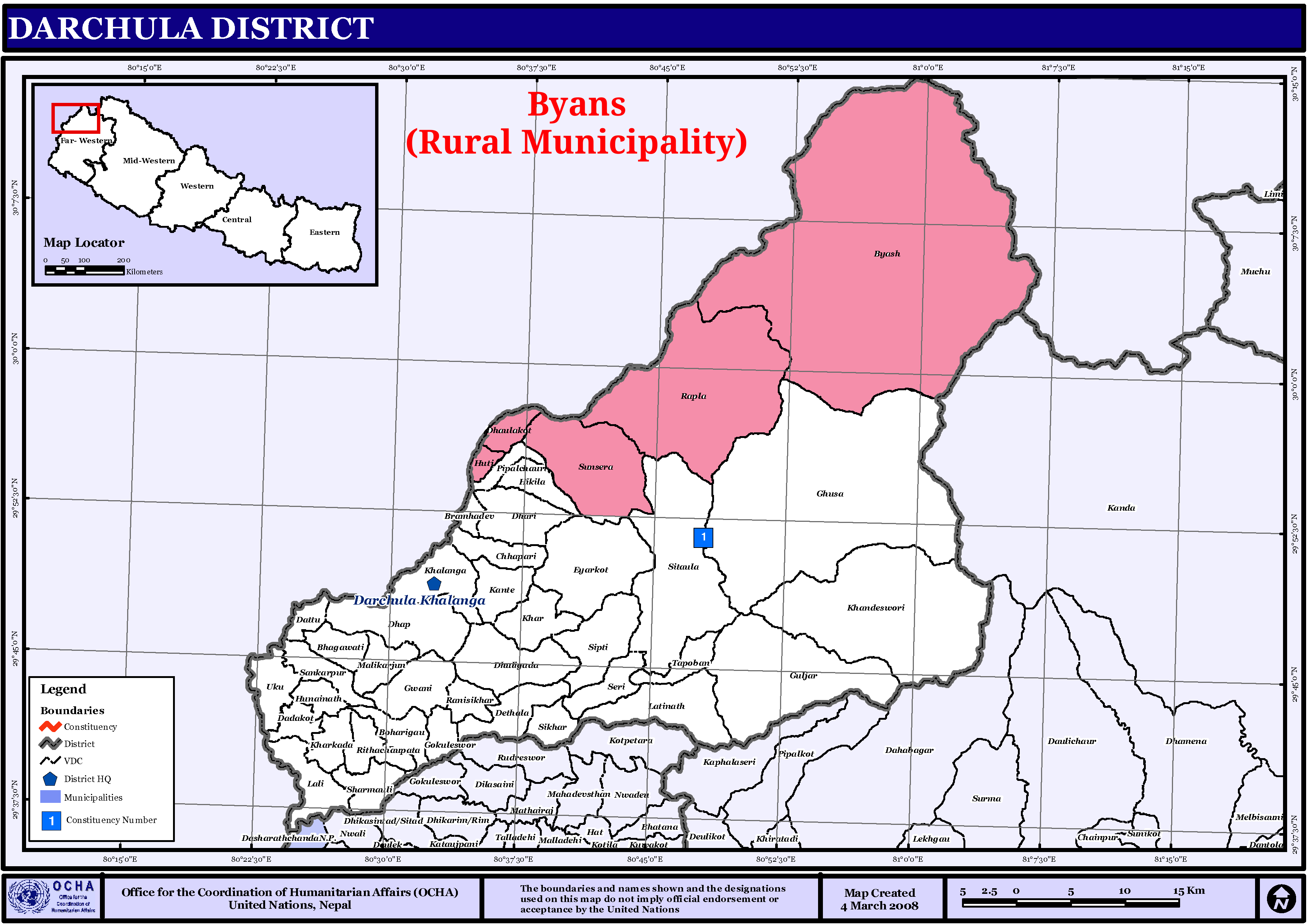 A map of Byans rural municipality showing previous VDCs